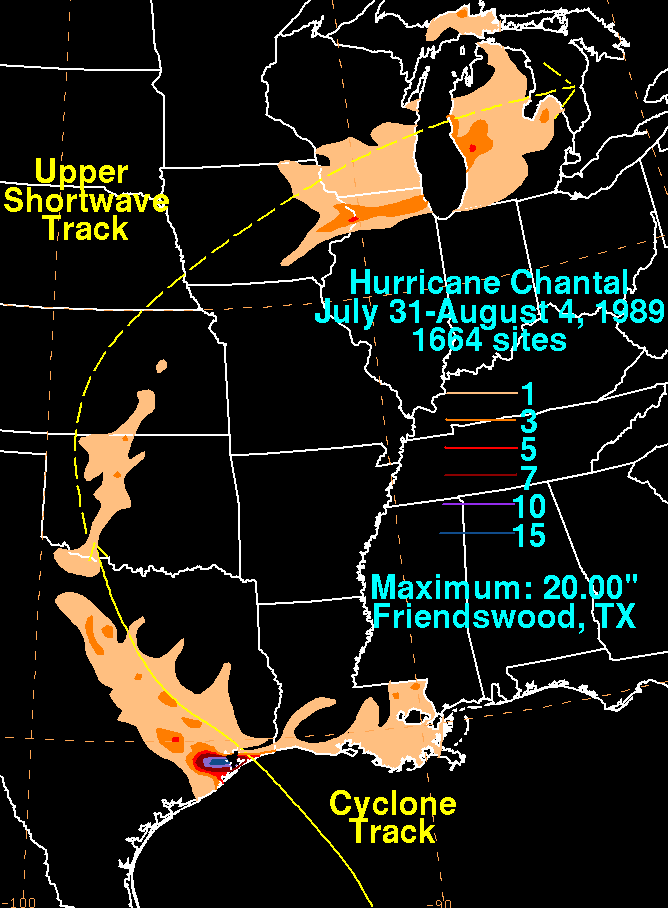 Storm total rainfall map of Hurricane Chantal during July and August 1989.